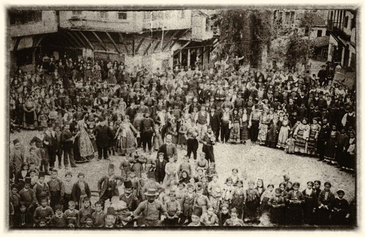 Traditinal dance in Lerigovo in 1890.